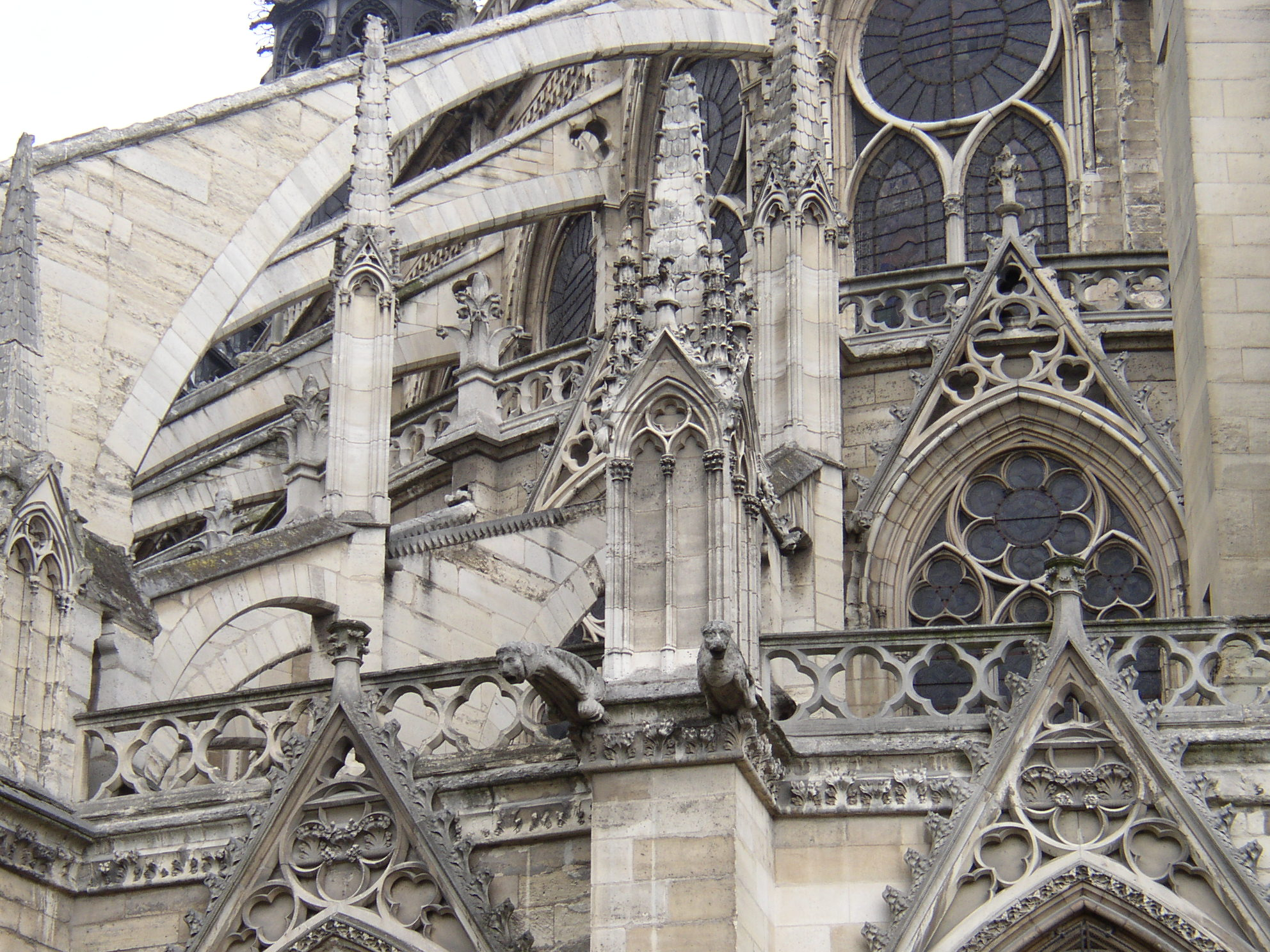 Flying Buttress of Notre Dame, Paris, France